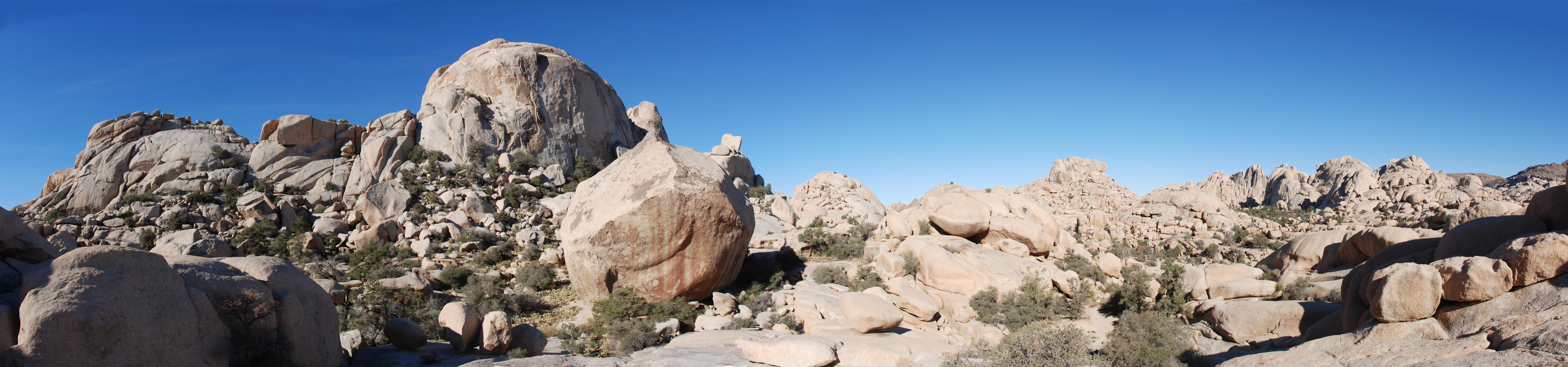 Joshua Tree National Park: The Wonderland of Rocks area. This image was created with Hugin.